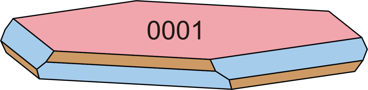 Drawing of a tabular Beudantite crystal; reference: Hochleitner et al., Minerale bestimmen nach äußeren Kennzeichen, 1996, 3rd ed., page 136. Brown: {1011}, Blue: {0112}